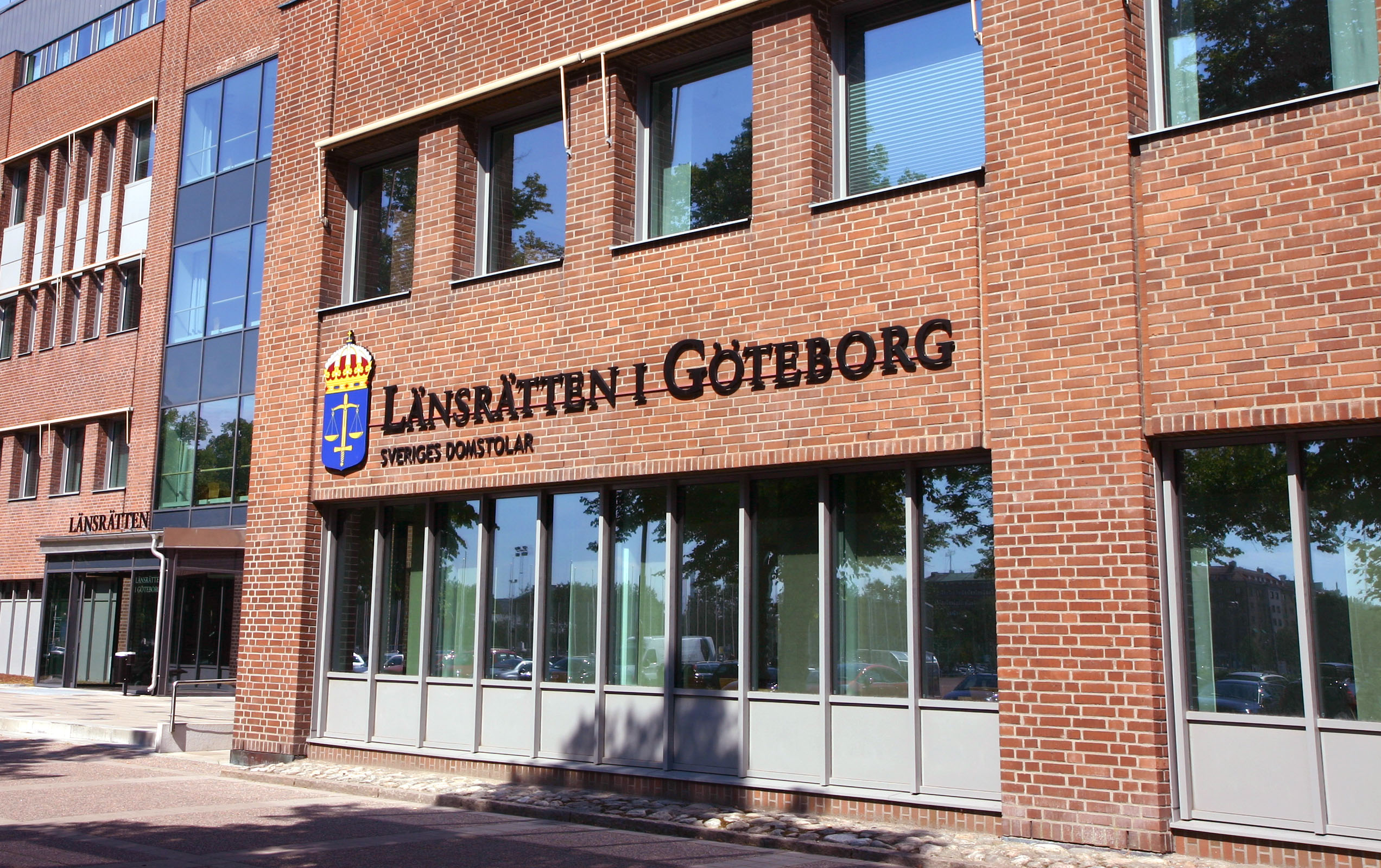 Entrance and front of the main building for Länsrätten i Göteborg (County Court of Gothenburg, Sweden)